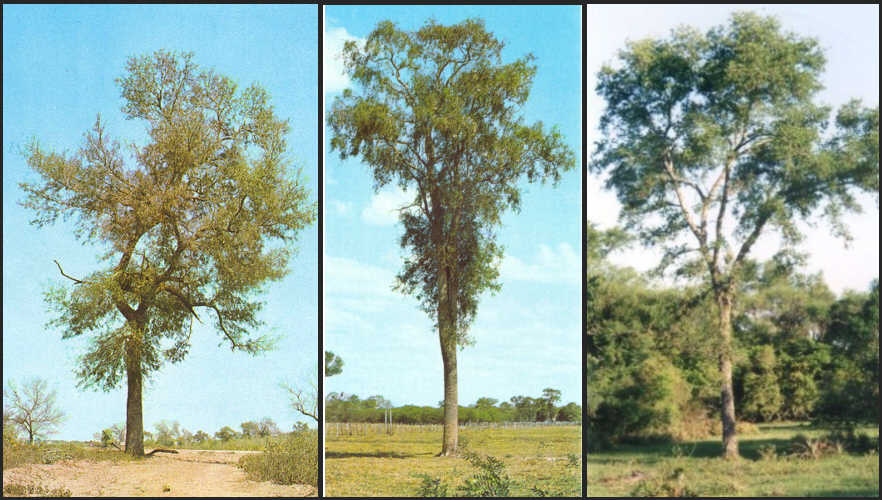 grouped photos of 3 Chaco Boreal varieties, from left - Quebracho Colorado Santiagueño, Quebracho Blanco, Quebracho Colorado.